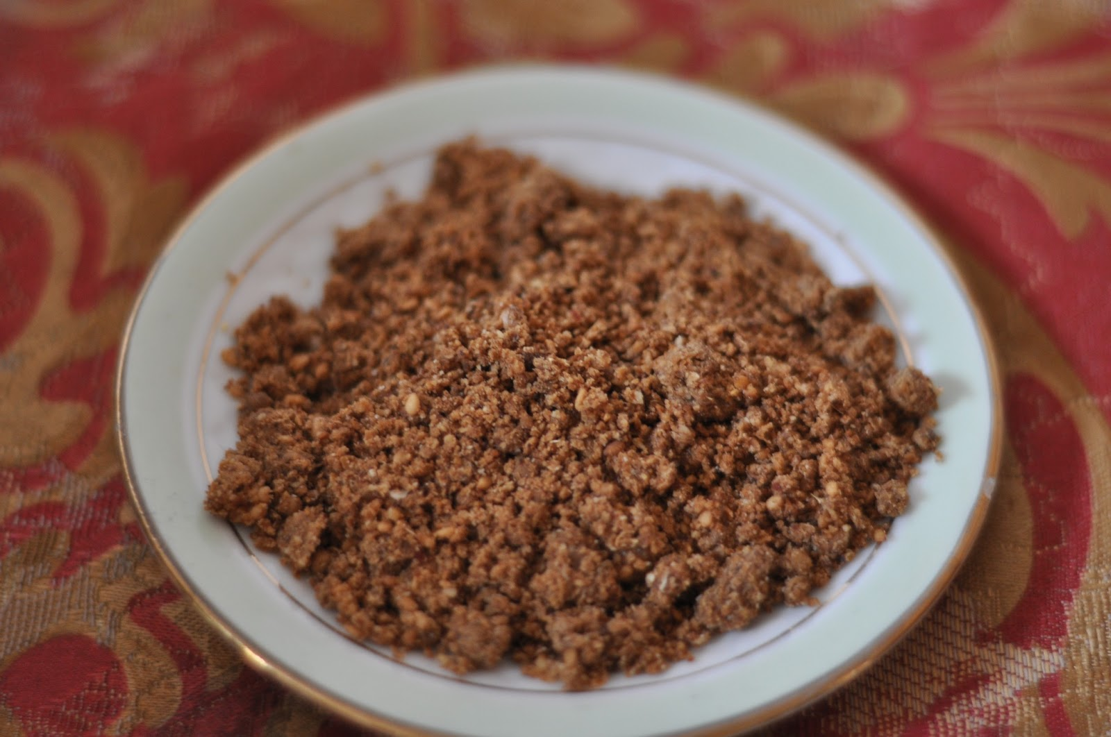 Du'ah, or dukkah, means 'to pound' in arabic. It's the blending of this combination of spices found readily in Egypt that give this spice blend it's unique taste and versatile use. It's usually eaten with fresh bread and olive oil, or sprinkled on pasta or salads. This is an image of food from Egypt